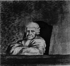 Drawing of Sir William Miller, Bart., Lord Glenlee by Robert Scott Moncrieff